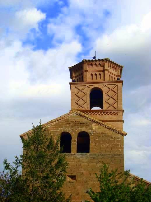 photo